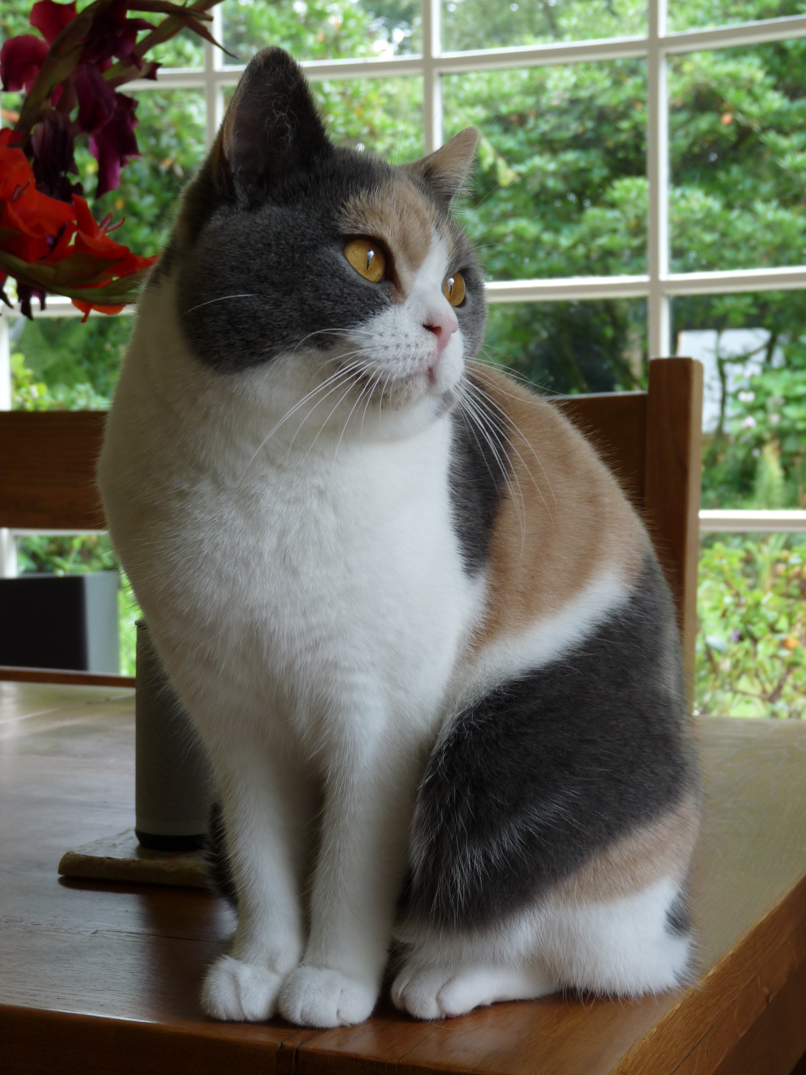 British Shorthair cat with dilute calico/tri-color coat.